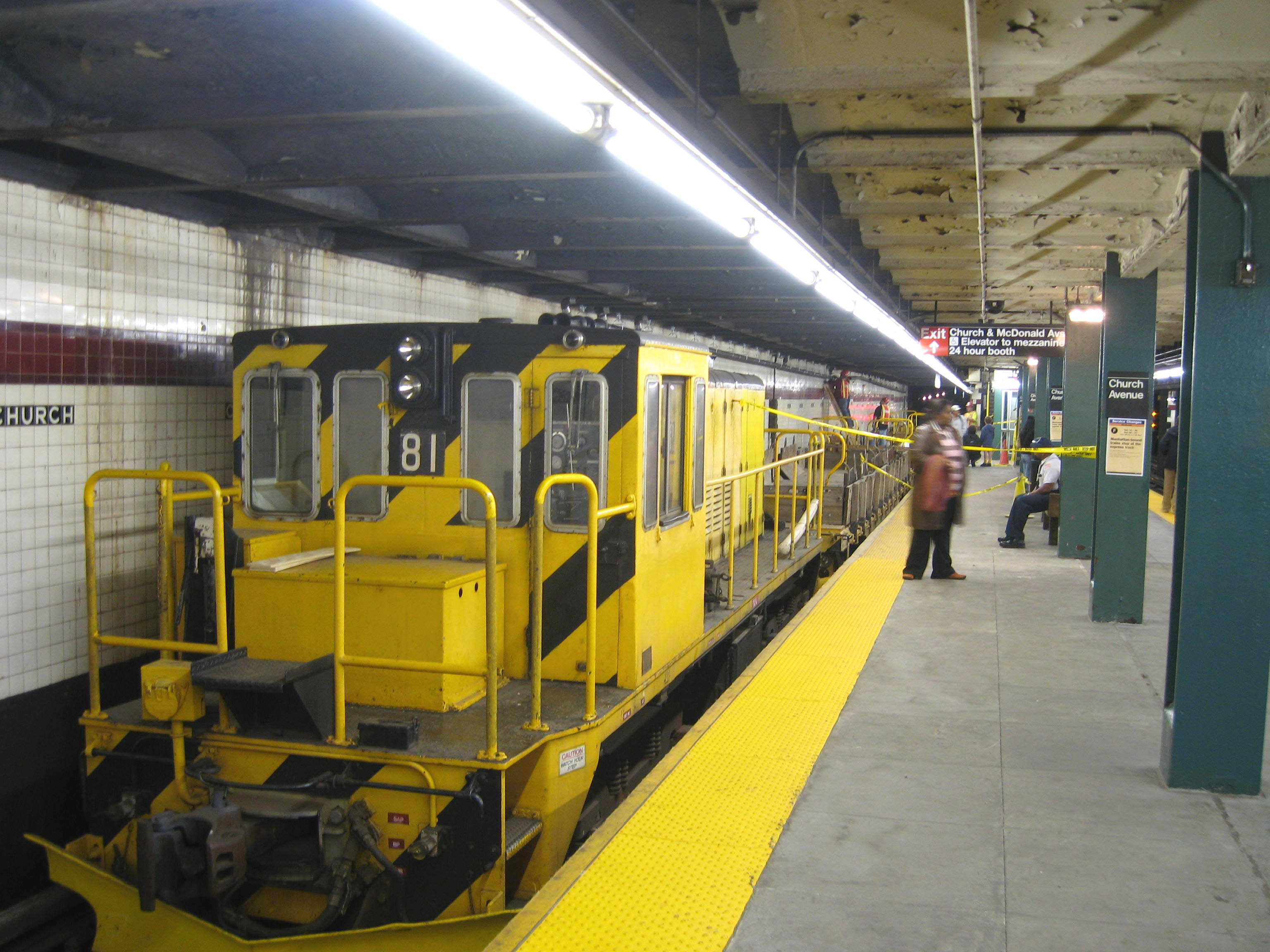 Looking south at a work train on the northbound local track of IND Church Avenue station